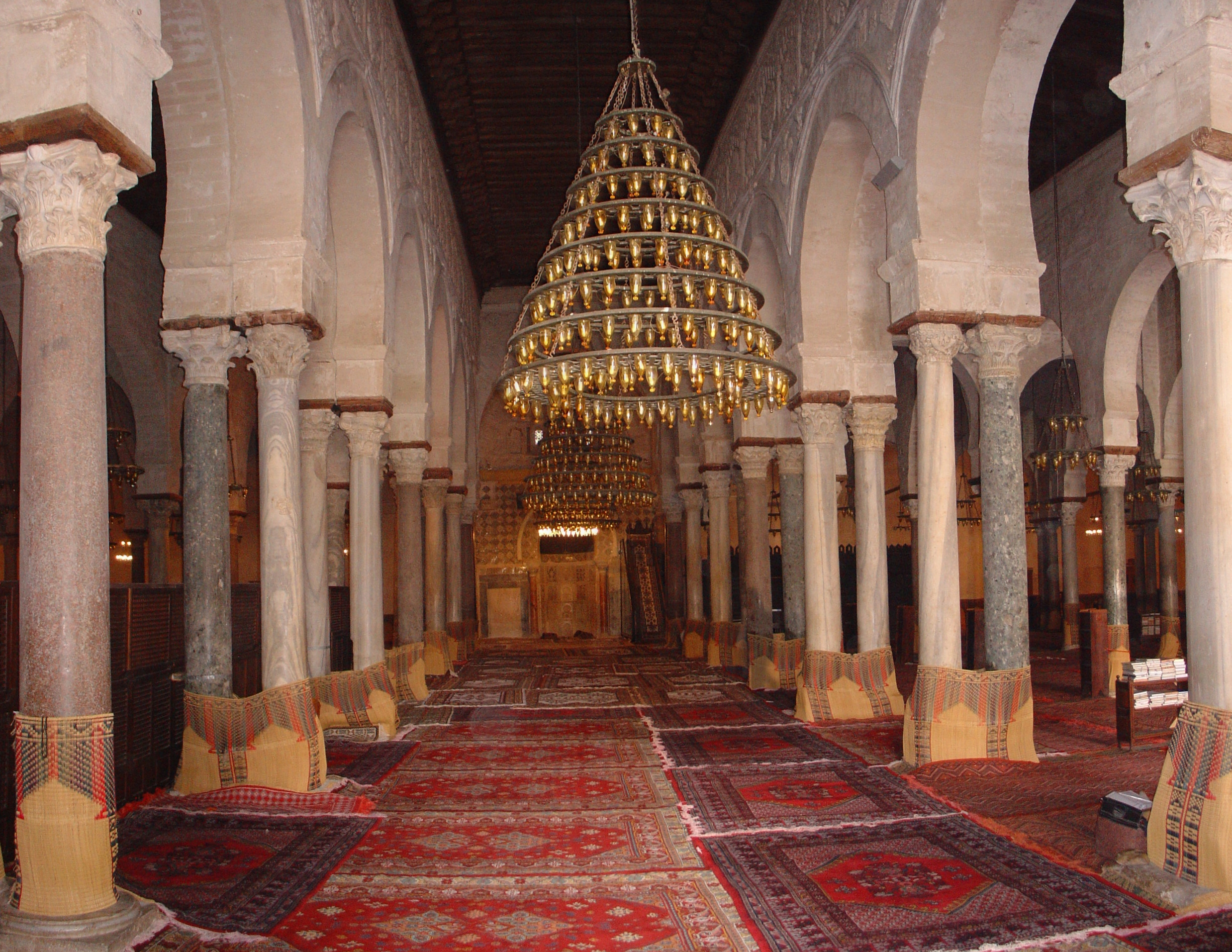 Stitched panorama of the Great Mosque of Kairouan prayer hall